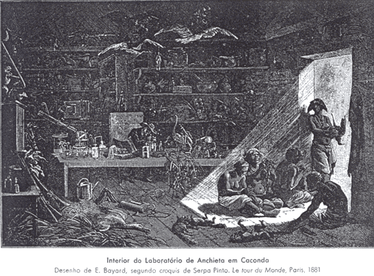 Laboratory of Portuguese naturalist José Alberto de Oliveira Anchieta in Caconda, Angola, Africa, 1866-1897, Public domain. From Serpa Pinto: Le Tour du Monde.